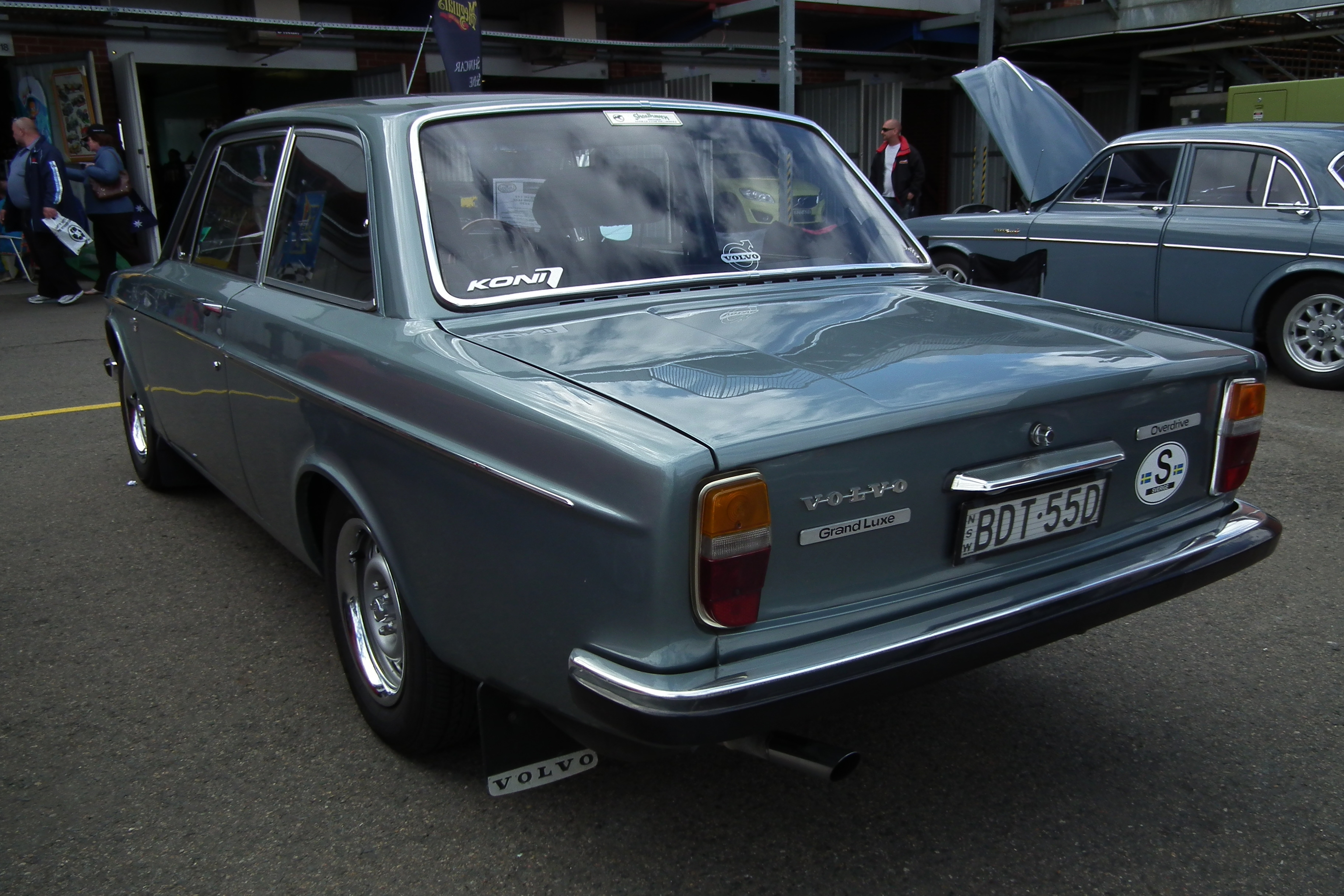 1970 Volvo 142 GL sedan. Taken at Shannon's Eastern Creek Classic 2011, held at Eastern Creek Raceway Sydney.